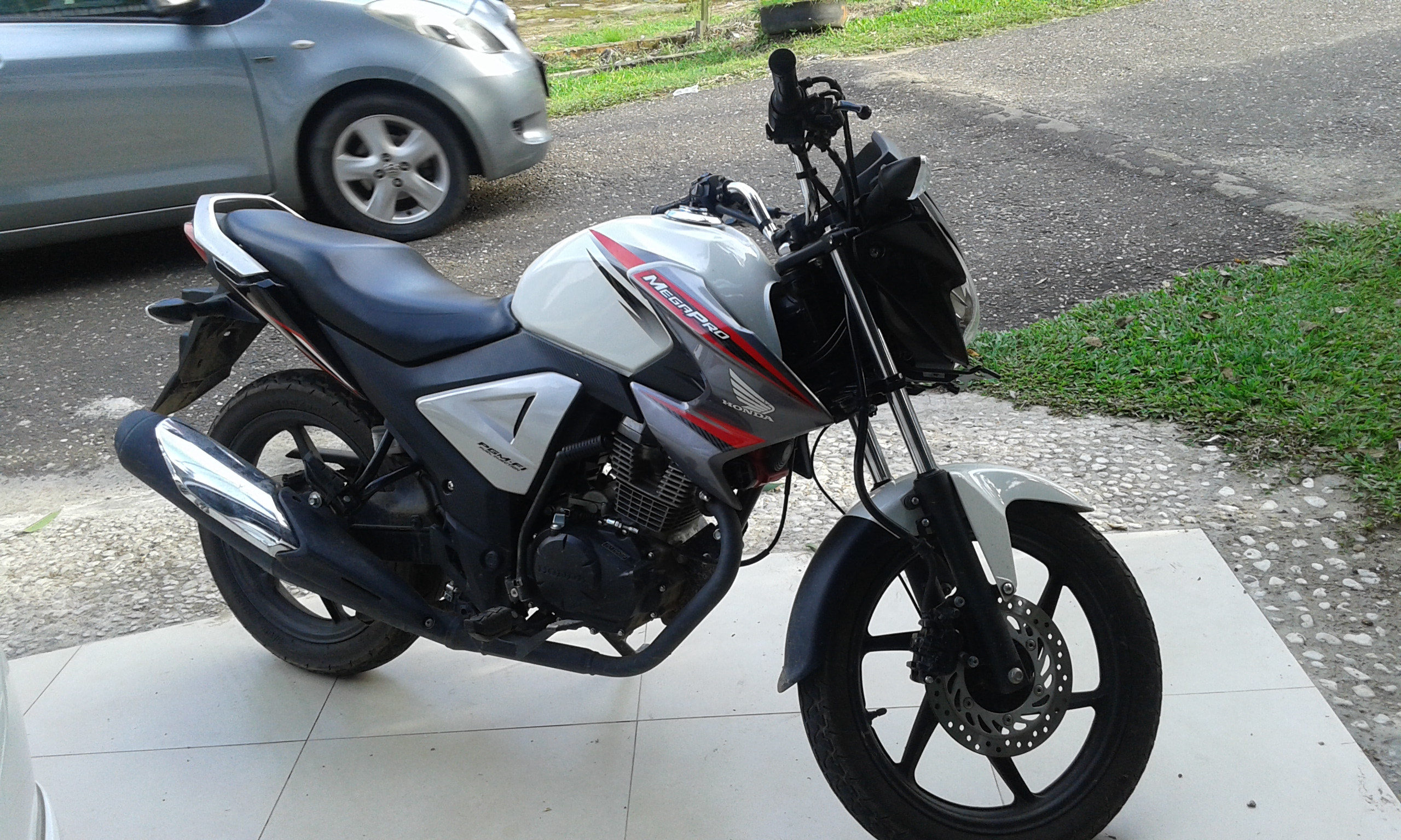 new motorcycle, but without motorcycle mirrors (due to detached)